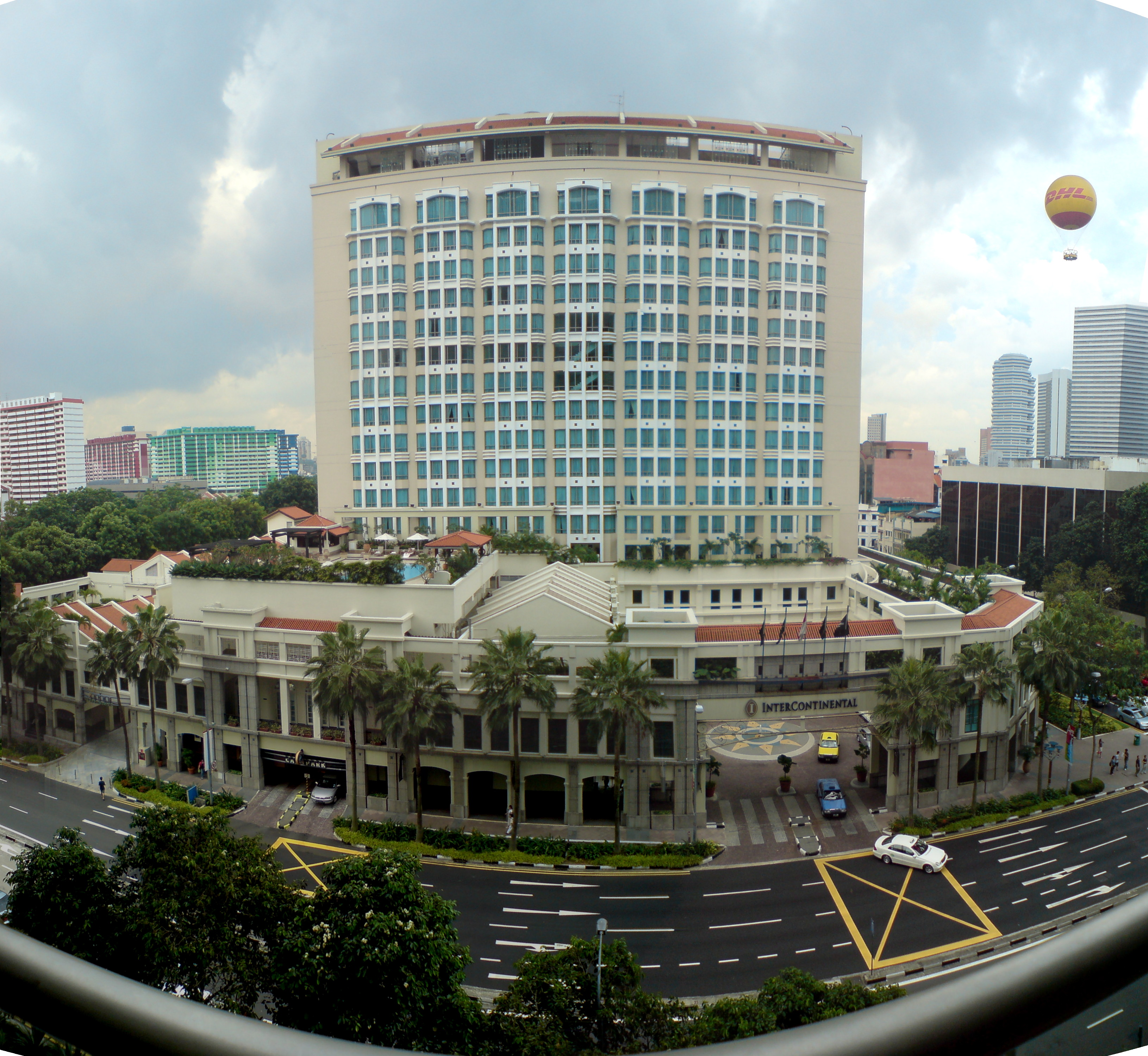 Intercontinental Hotel Singapore